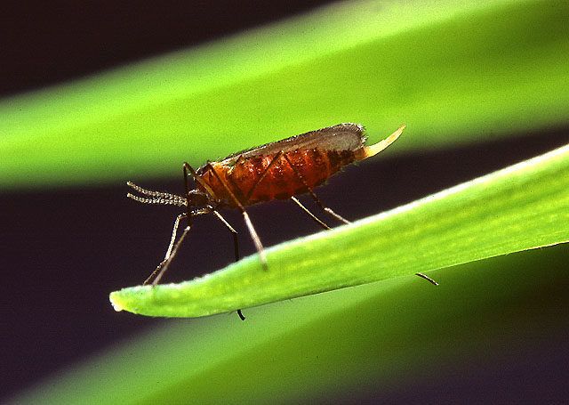 Hessian fly from Thumbnail Image Number K4193-13 About one-eighth-inch long, the female Hessian fly emits a sex pheromone from her ovipositor to attract males. Photo by Scott Bauer.